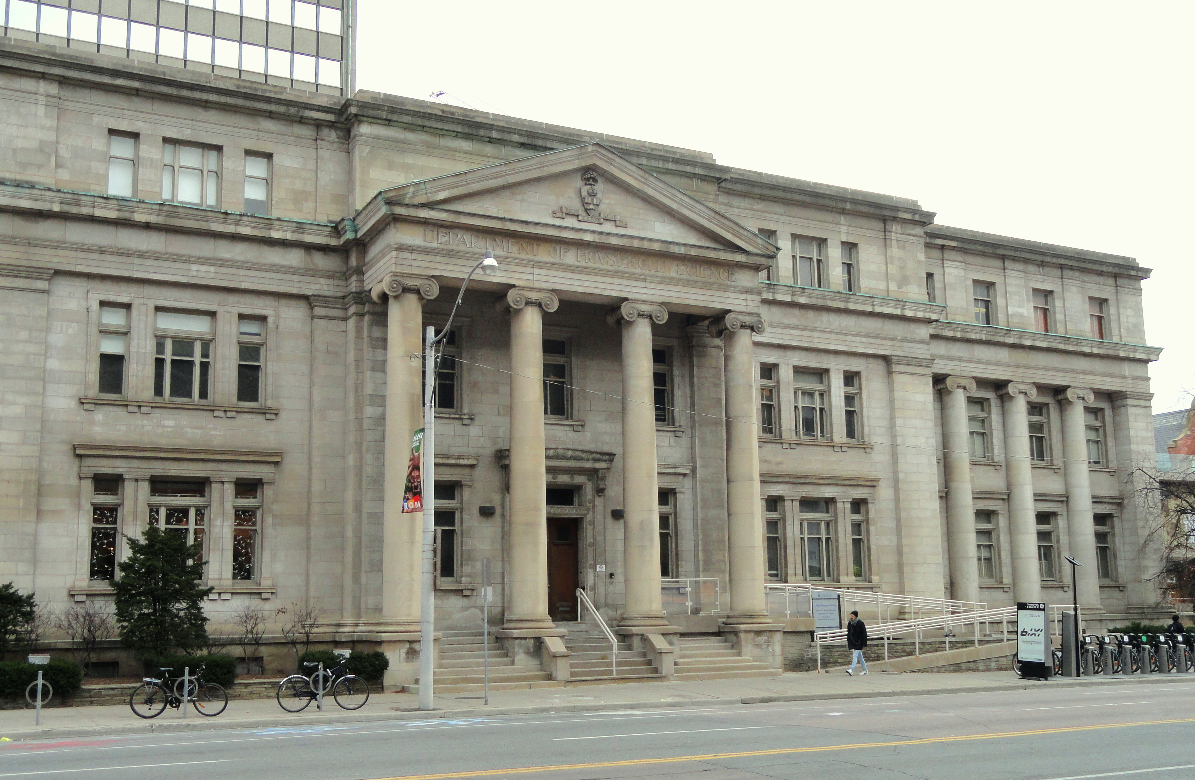 Building in Toronto, Ontario, Canada.